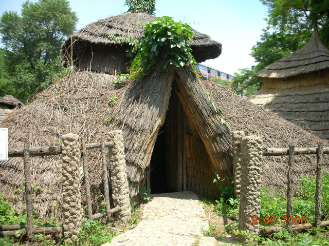 Rebuilding of primitive houses, Xinle neolithic site, Shenyang, China 瀋陽新樂遺址復原後原始半地穴式房屋